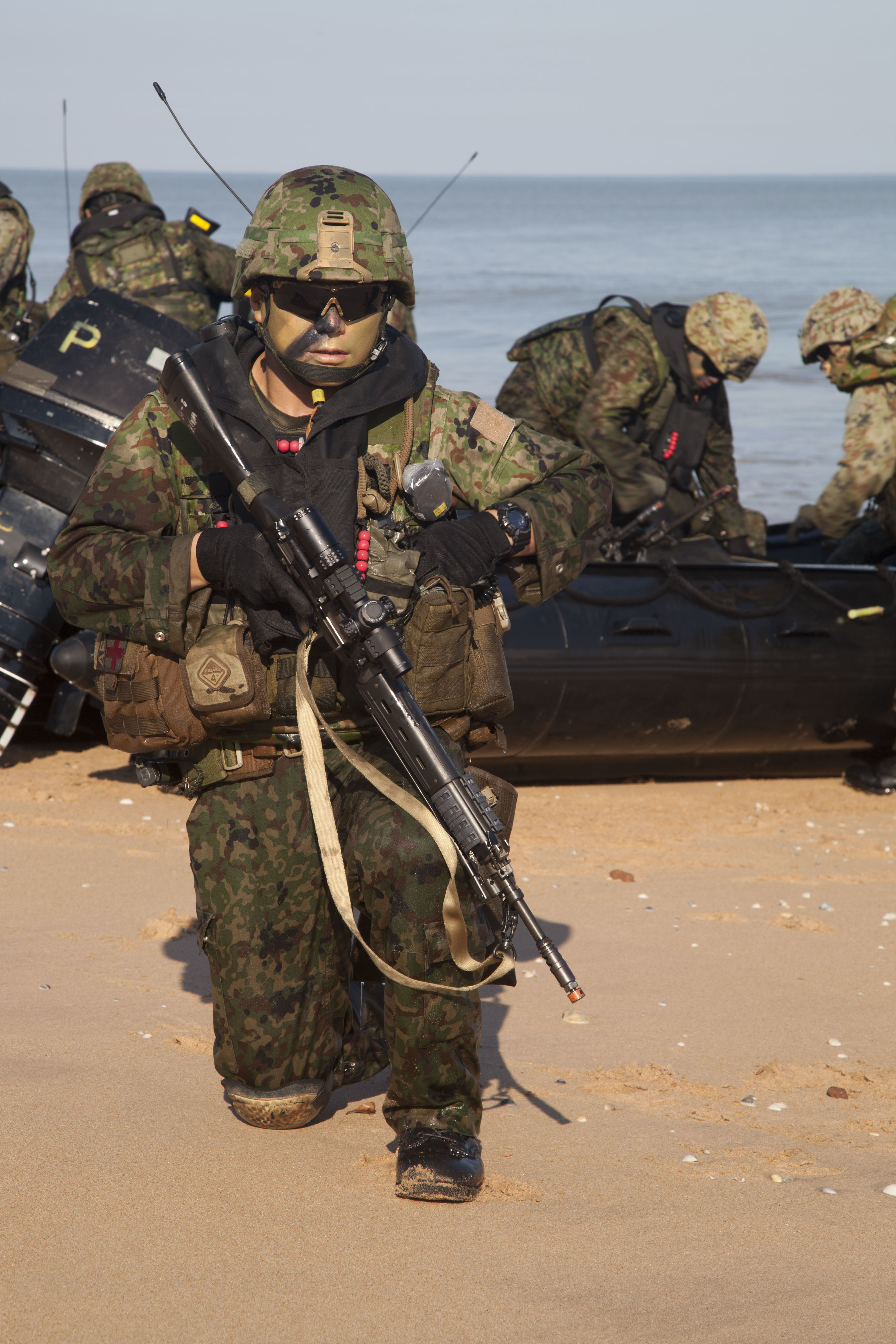 Japanese soldiers from the Japanese Self Defense Force attached to the U.S Marines' Battalion Landing Team, 2nd Battalion, 5th Marines, 31st Marine Expeditionary Unit, participate in an amphibious assault utilizing Combat Rubber Reconnaissance Crafts at Fog Bay during exercise Talisman Sabre 15, in the Northern Territory, Australia, July 11. Talisman Sabre provides an invaluable opportunity to conduct operations in a combined, joint, and interagency environment that will increase the U.S and Australia’s ability to plan and execute contingency responses, from combat missions to humanitarian efforts. (U.S. Marine Corps photo by MCIPAC Combat Camera Gunnery Sgt. Ricardo Morales/Released)